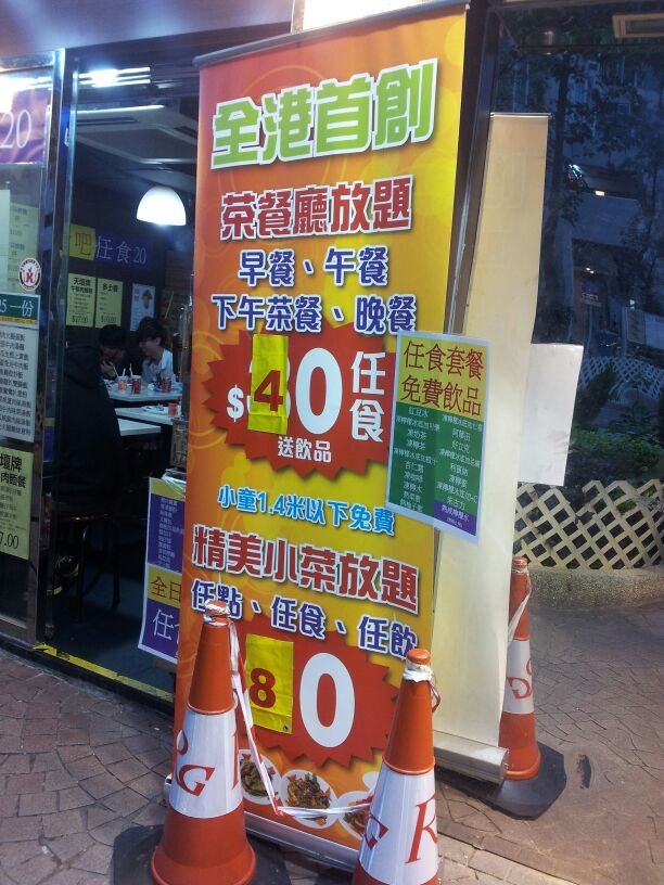 It shows how the Cha Chaan Teng Buffet were running.